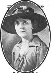 May Beegle, from a 1919 publication. A white woman wearing a wide-brimmed hat, a collared bodice, and a beaded necklace.